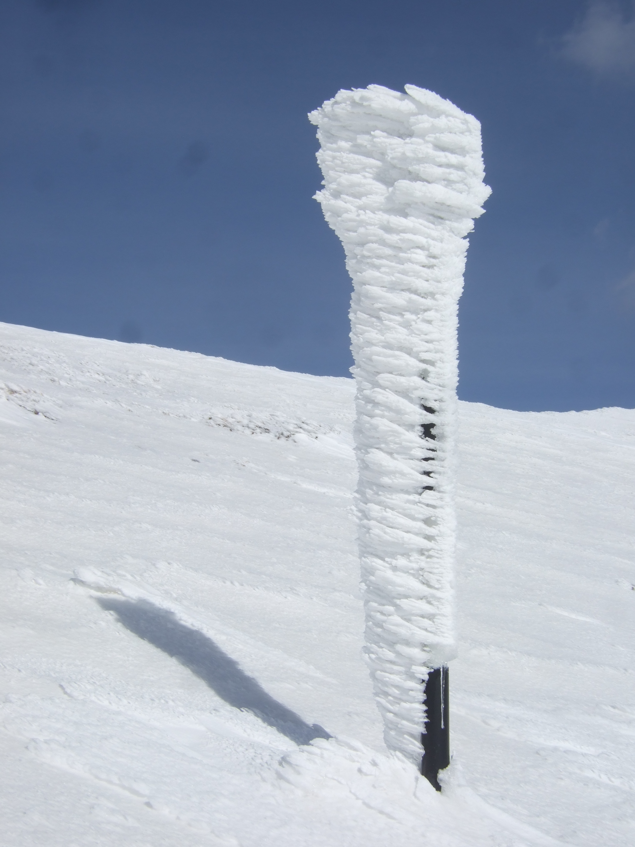 Rime over a mast, with the wind direction (from the left)